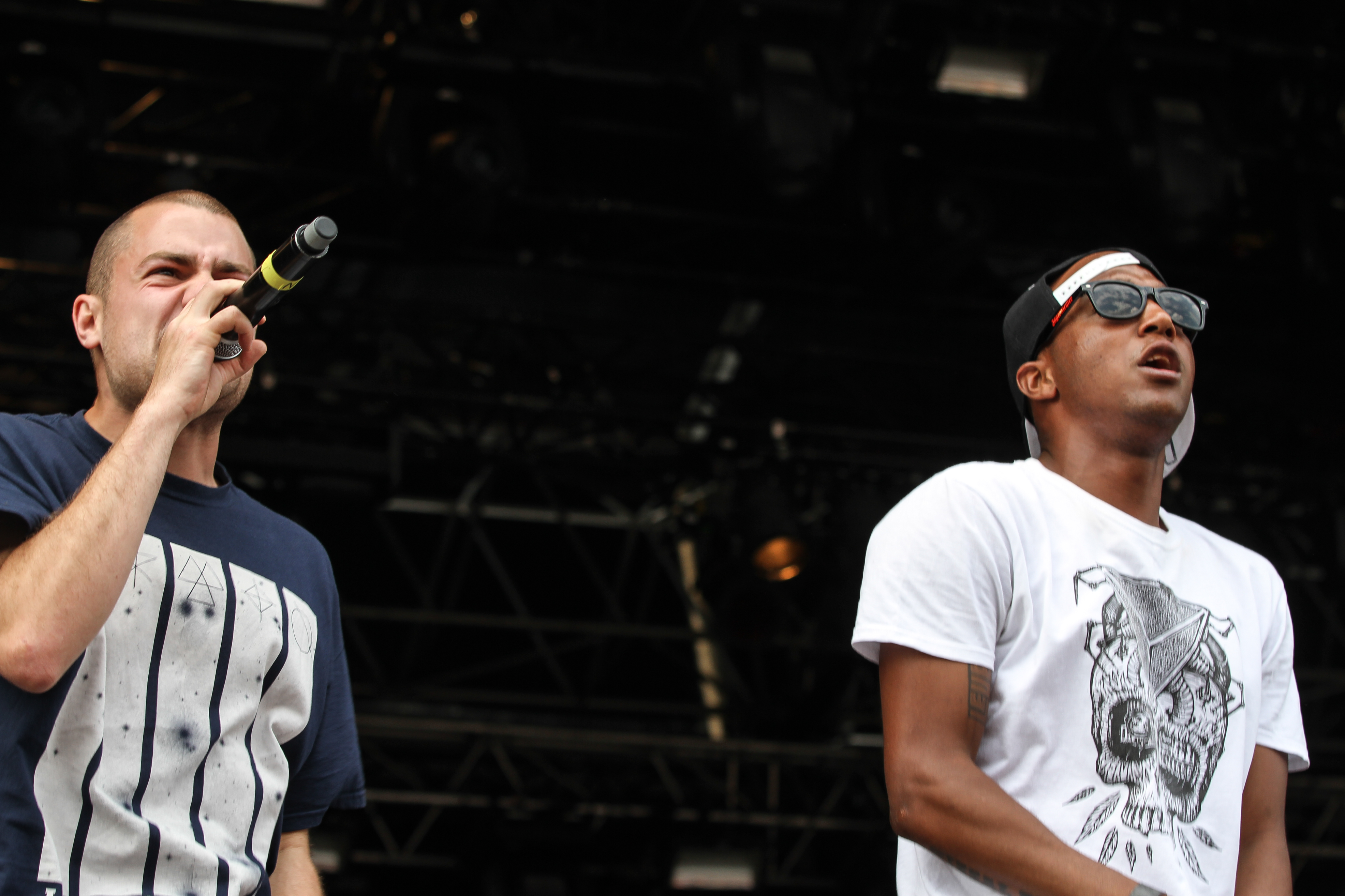 Hacktivist performing at With Full Force Festival 2013